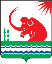 Srednekolymsk (Yakutia), coat of arms